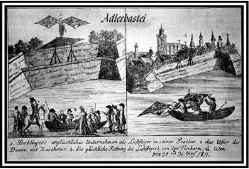 The accident of Mr Albrecht Berblinger, a flight pioneer called "Schneider von Ulm" (tailor from Ulm).